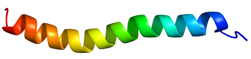 Structure of protein UCN.Based on PyMOL rendering of PDB 2RMF.